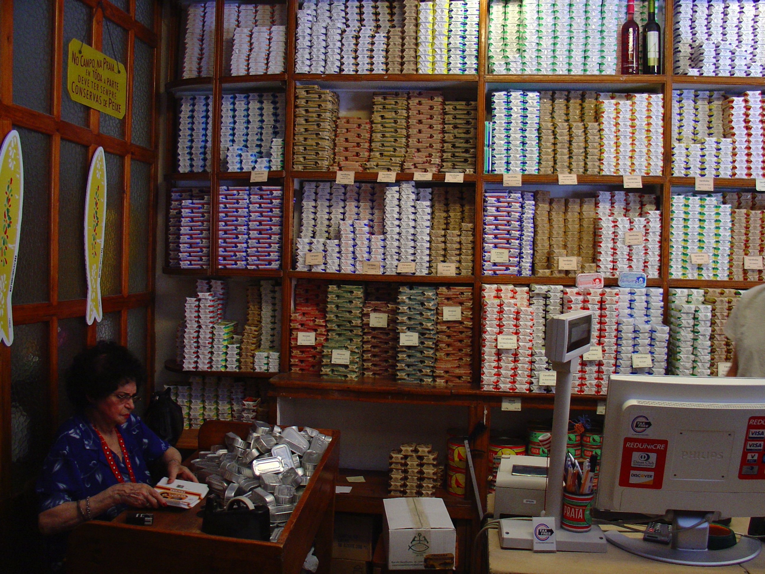 Conserveira de Lisboa,34 rua dos Bacalhoeiros